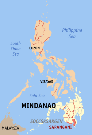 Map of the Philippines showing the location of Sarangani